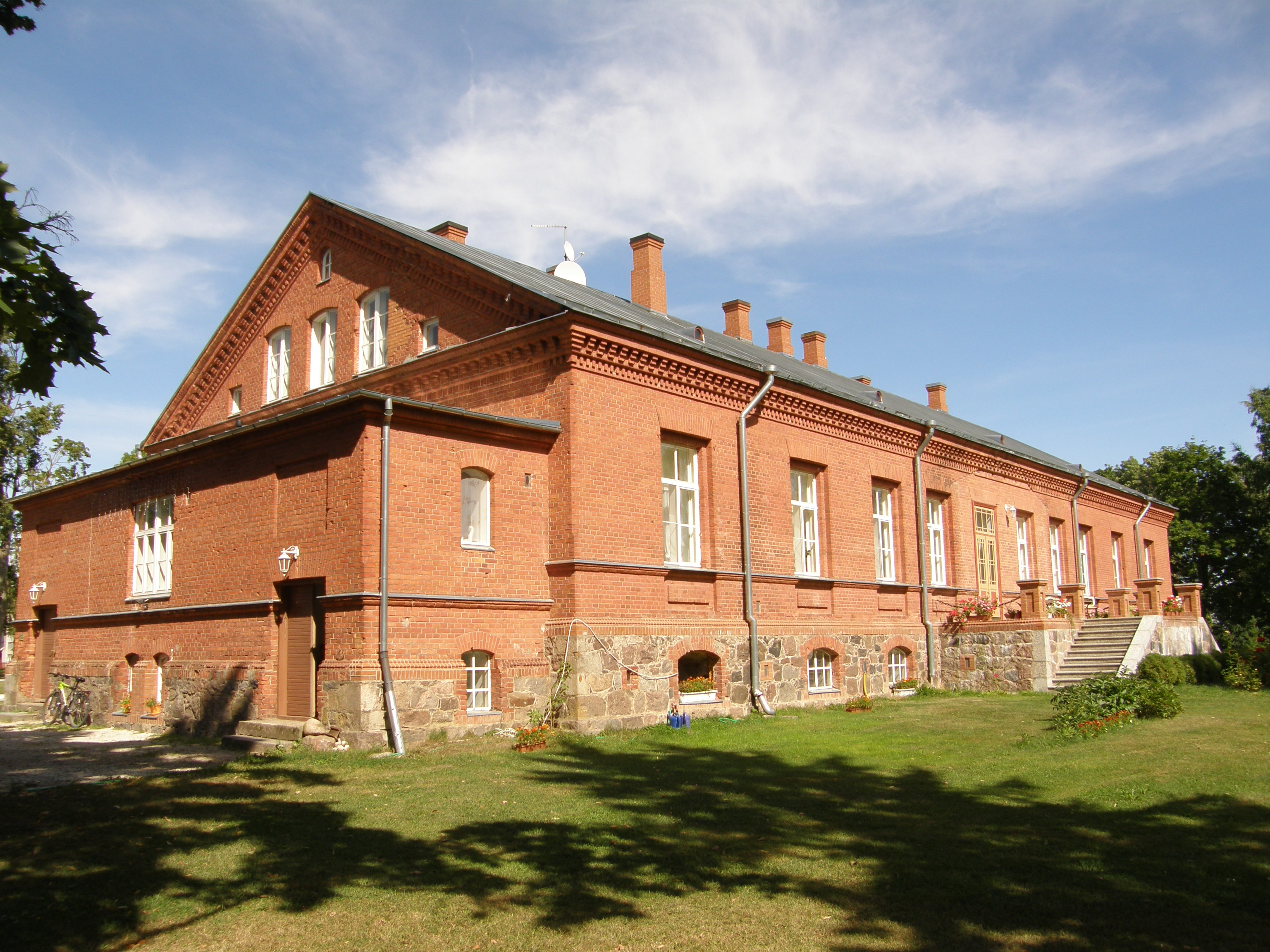 Kudina manor main building